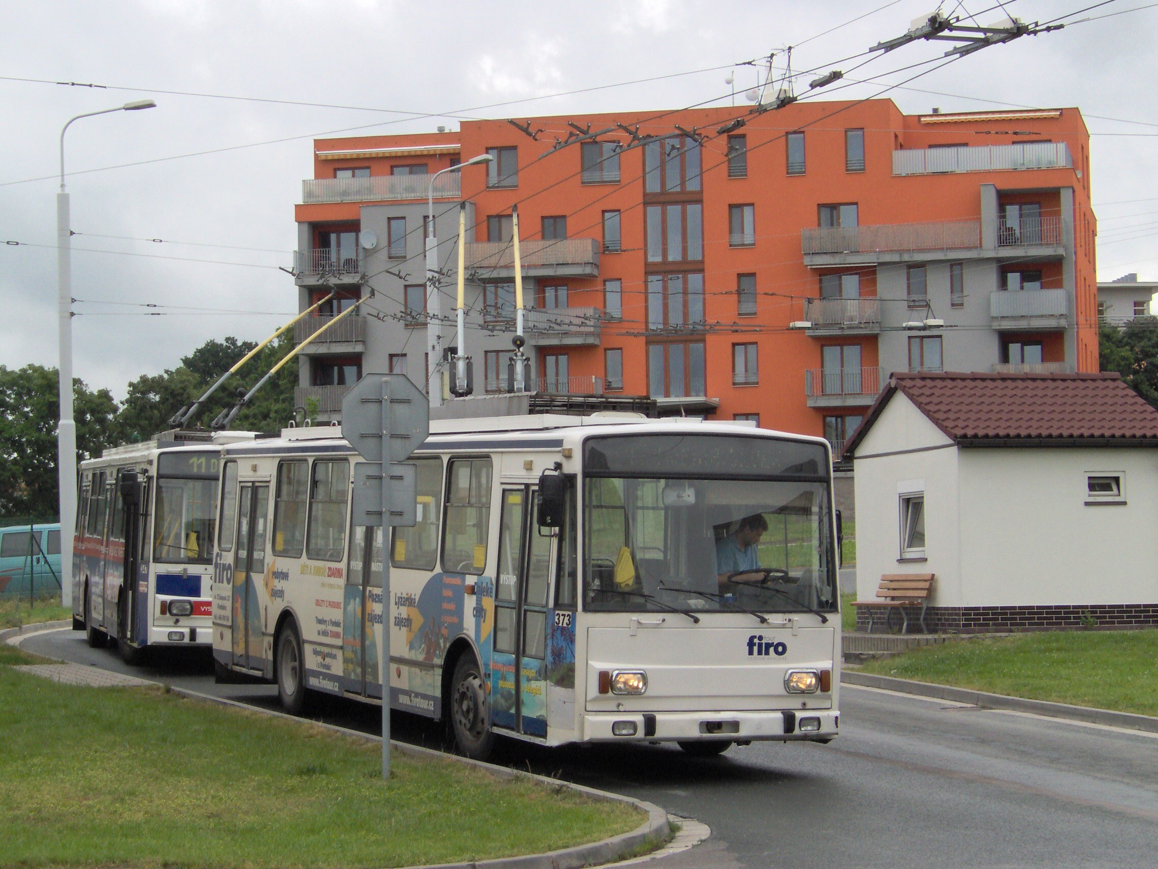 Škoda 14TrM trolleybus, Pardubice, Czech Republic